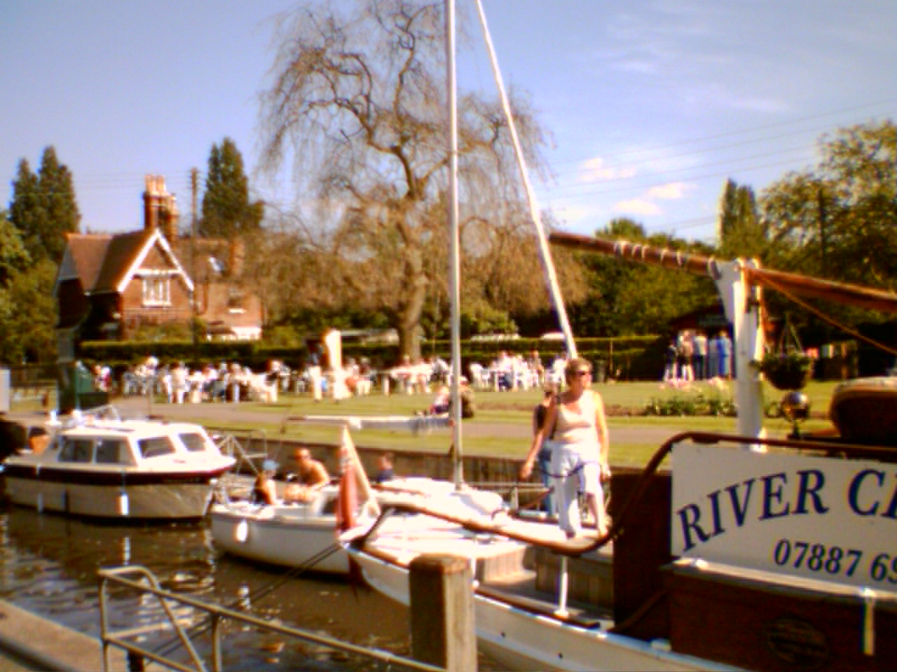 Shepperton Lock